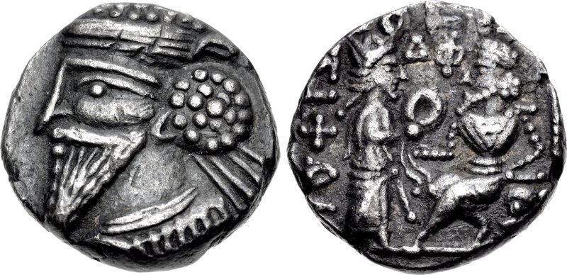 Tetradrachm of Vologases V, minted at Seleucia in 192 or 193.